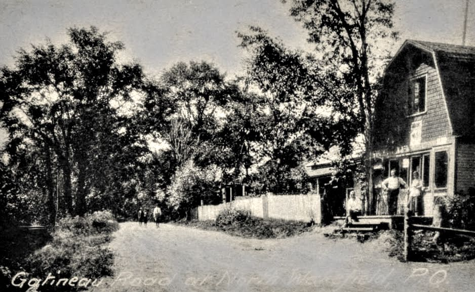 Store on the public road between North Wakefield and Gatineau in Alcove hamlet, La Pêche, Les Collines-de-l'Outaouais, Quebec